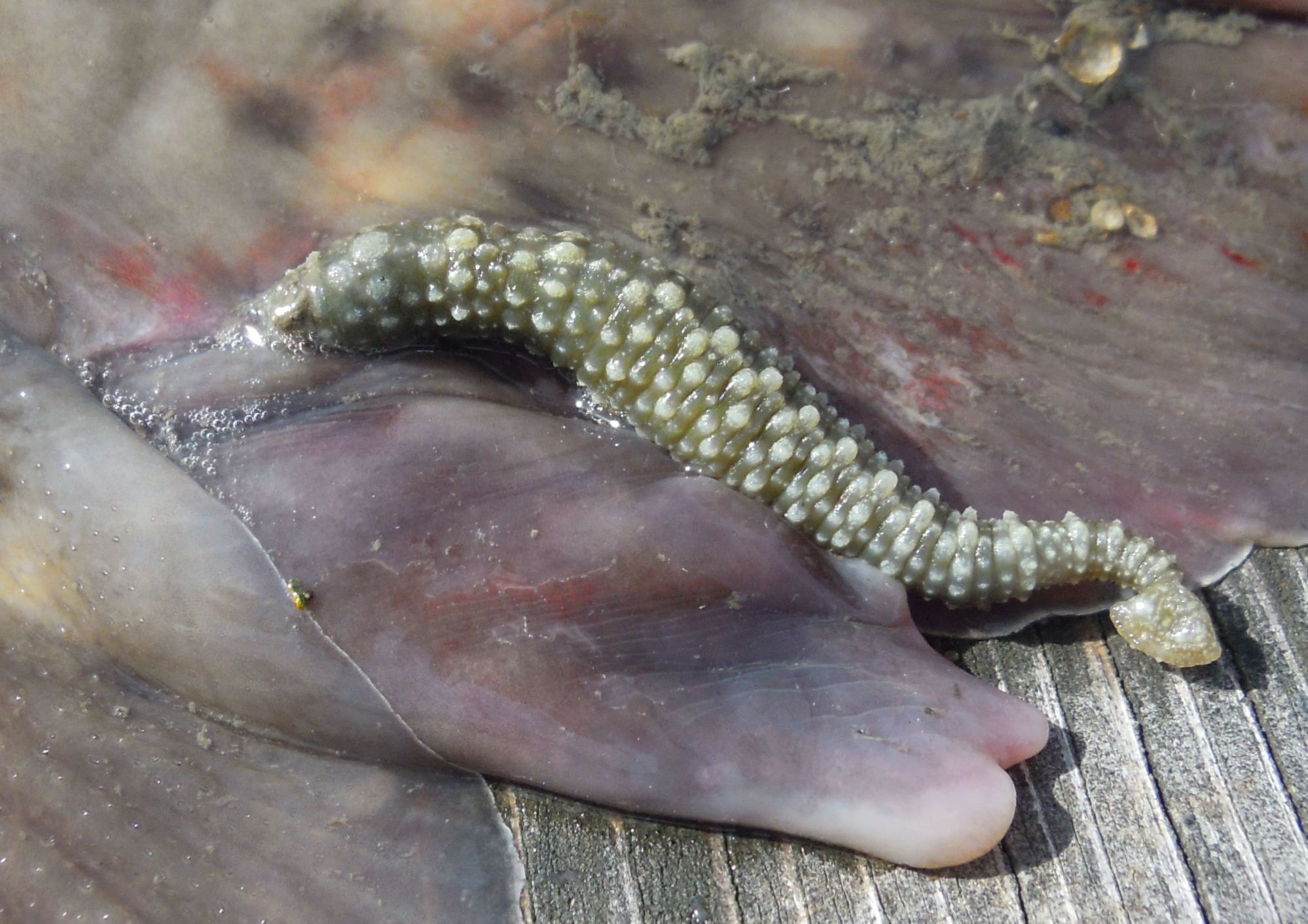 Piscicolid leech Pontobdella muricata. On a Thornback ray, Stavern, Norway.